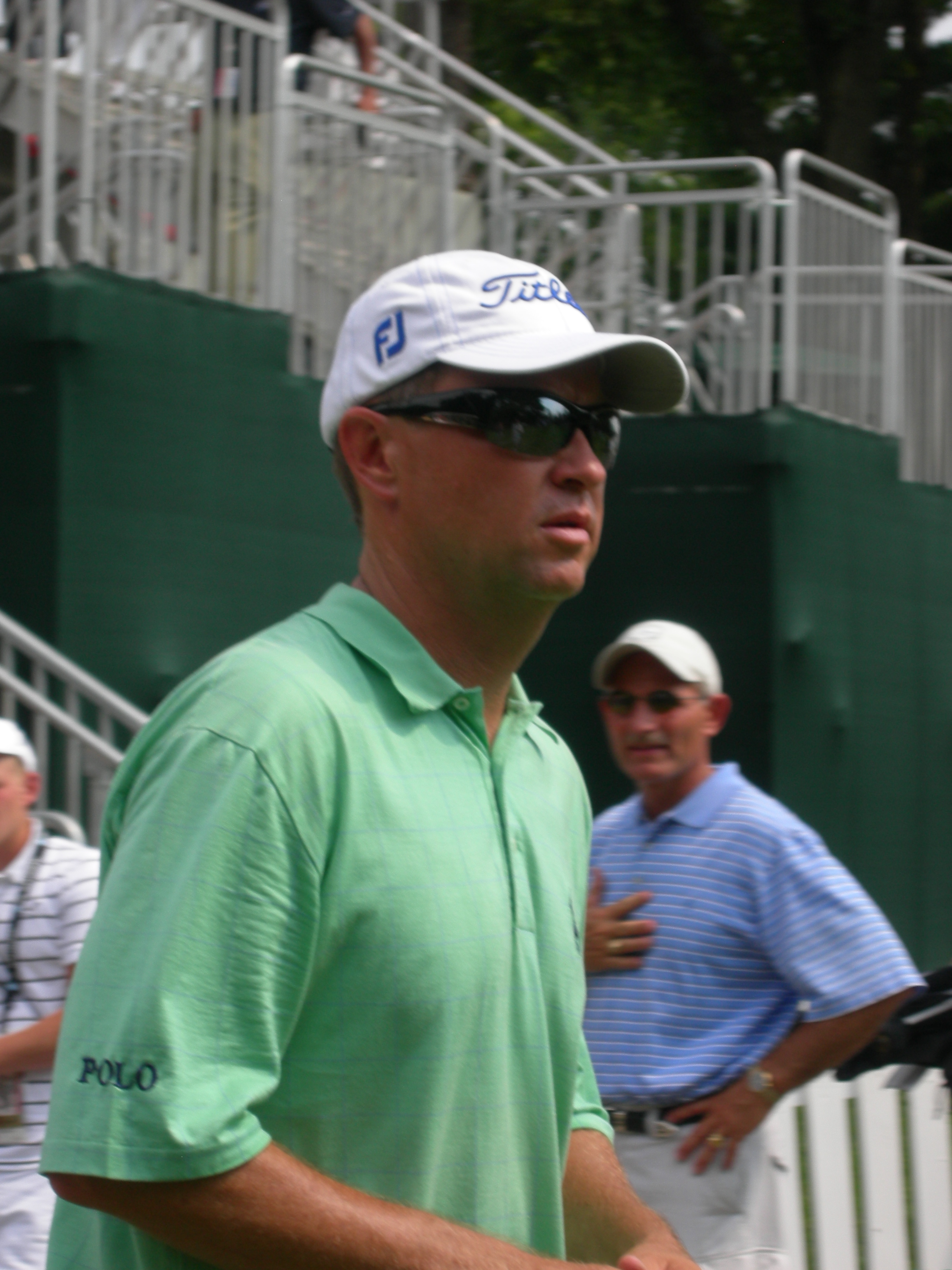 Davis Love III walking off the 15th green of the Congressional Country Club's Blue Course during the Earl Woods Memorial Pro-Am prior to the 2007 AT&T National tournament.